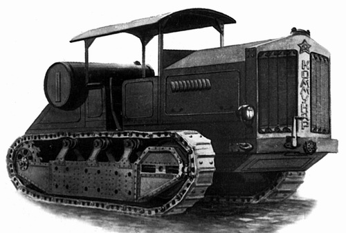 Soviet tractor "Kommunar"